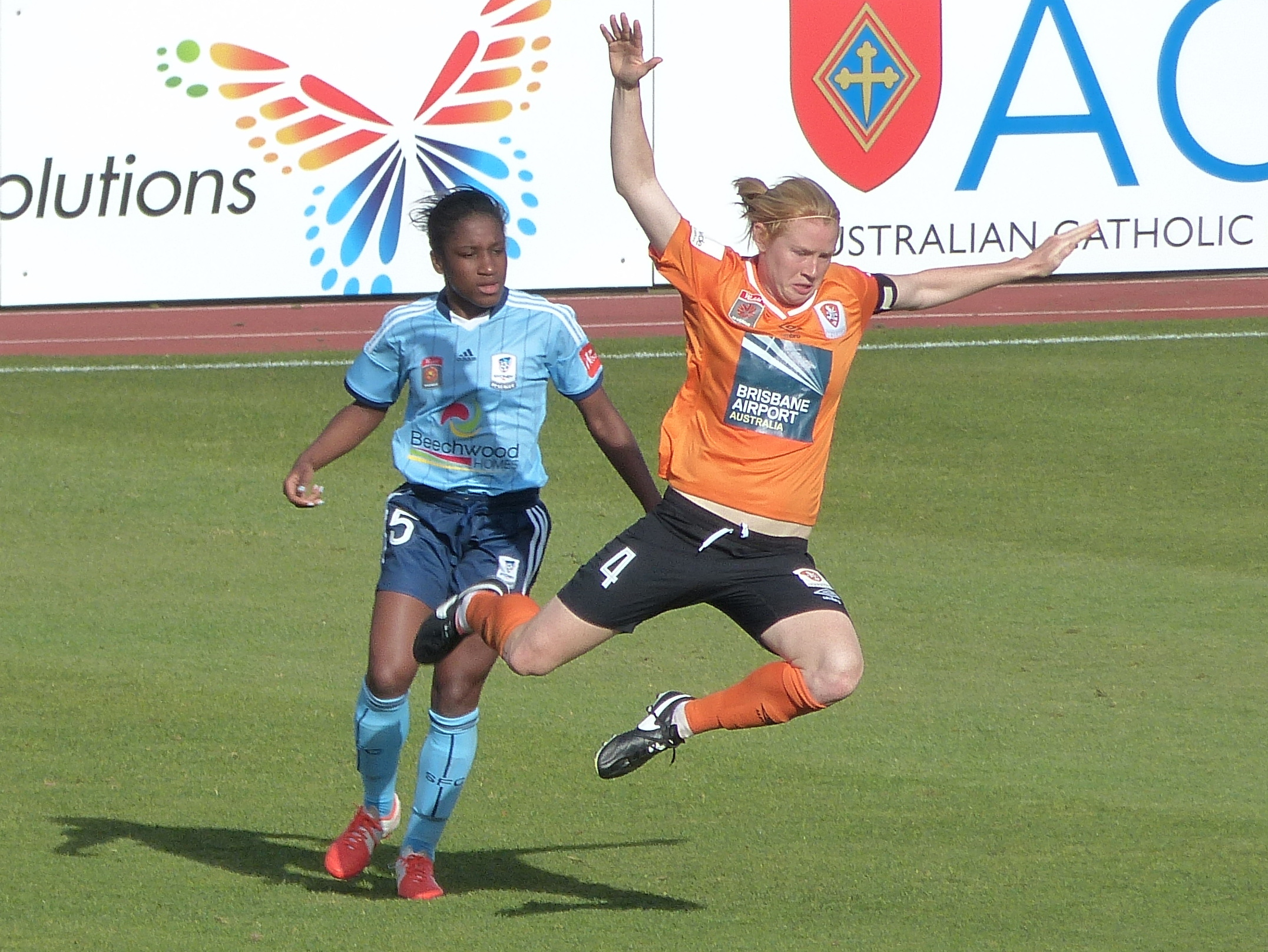 21 Sept 2014 W League Roar v South Sydney